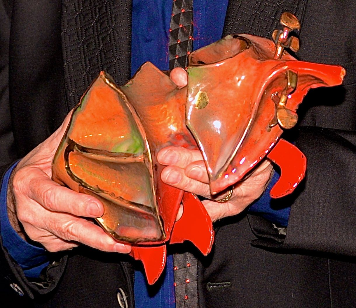 Benny Anderssons Guldbagge from the Guldbagge Awards 21 januari 2013.